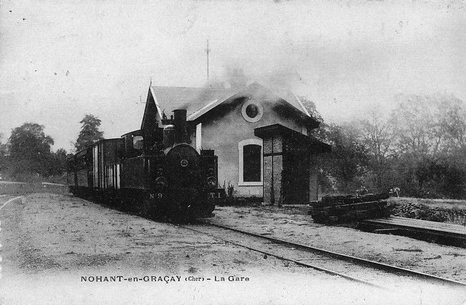 TI no. 9 on a mixed train